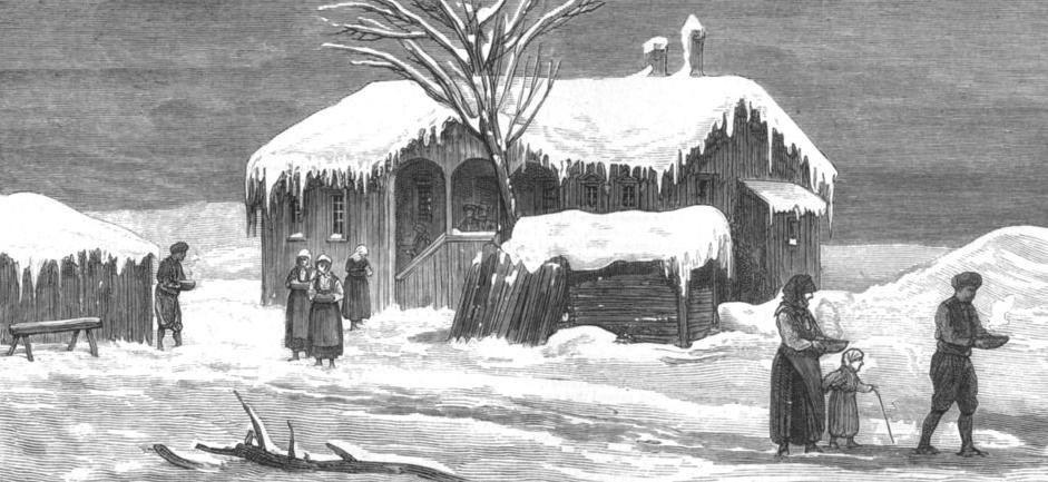 Emily Ann Smythe or Emily Anne Beaufort or Lady Strangford (1826 – 24 March, 1887) was a British illustrator, writer and nurse active in Egypt and Bulgaria et al. This is one of the hospitals she helped build in Batak in Bulgaria